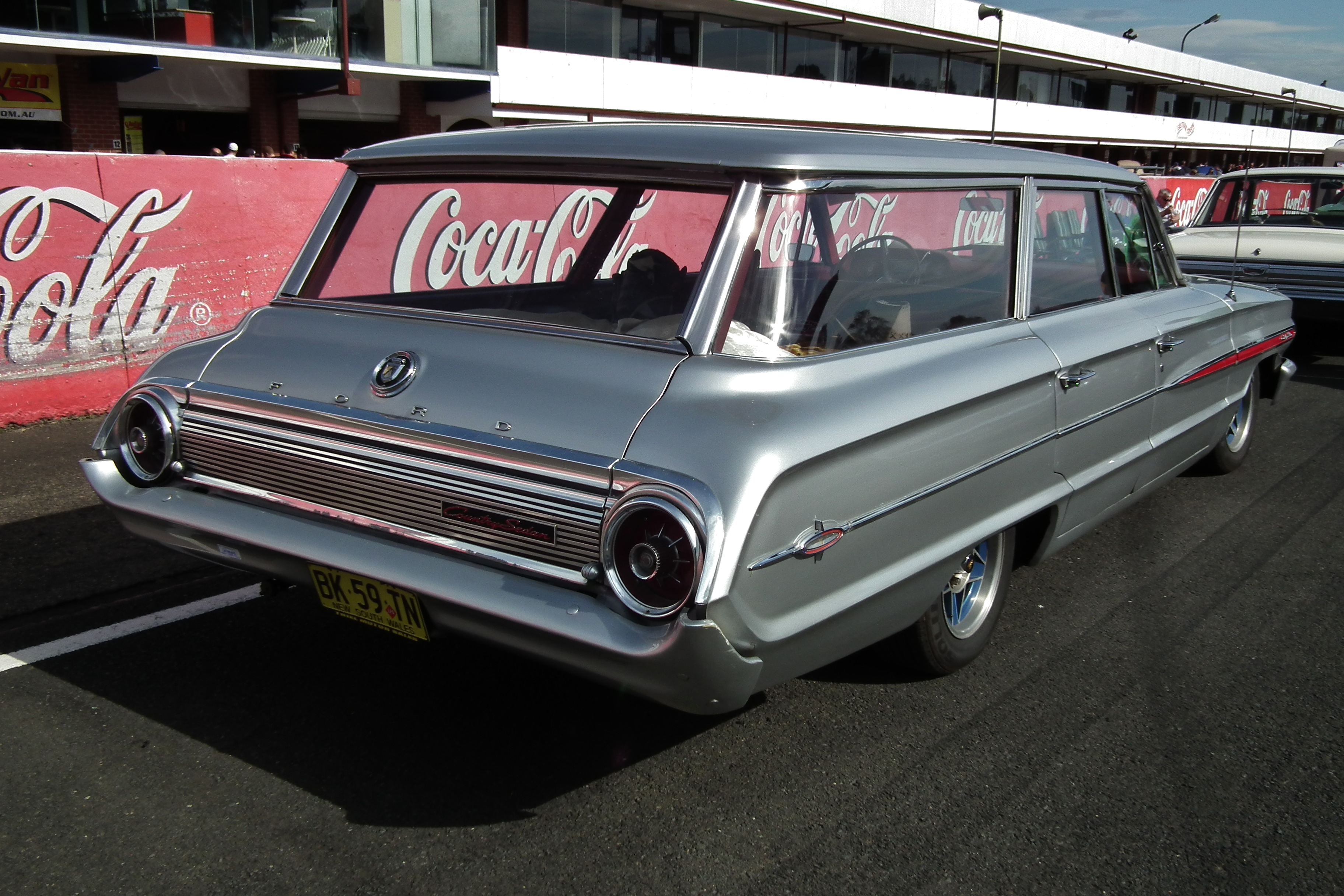 1964 Ford Galaxie Country Sedan station wagon. Taken at the 2011 New South Wales All Ford Day, held at Eastern Creek Raceway.